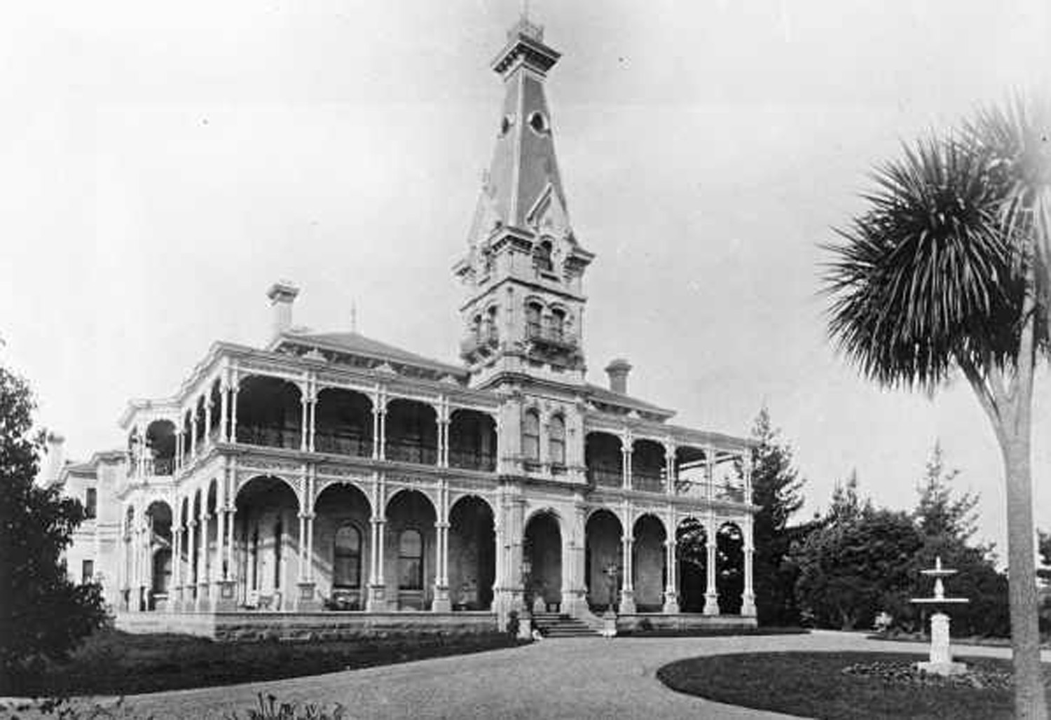 Rupertswood in Sunbury, Victoria circa 1890